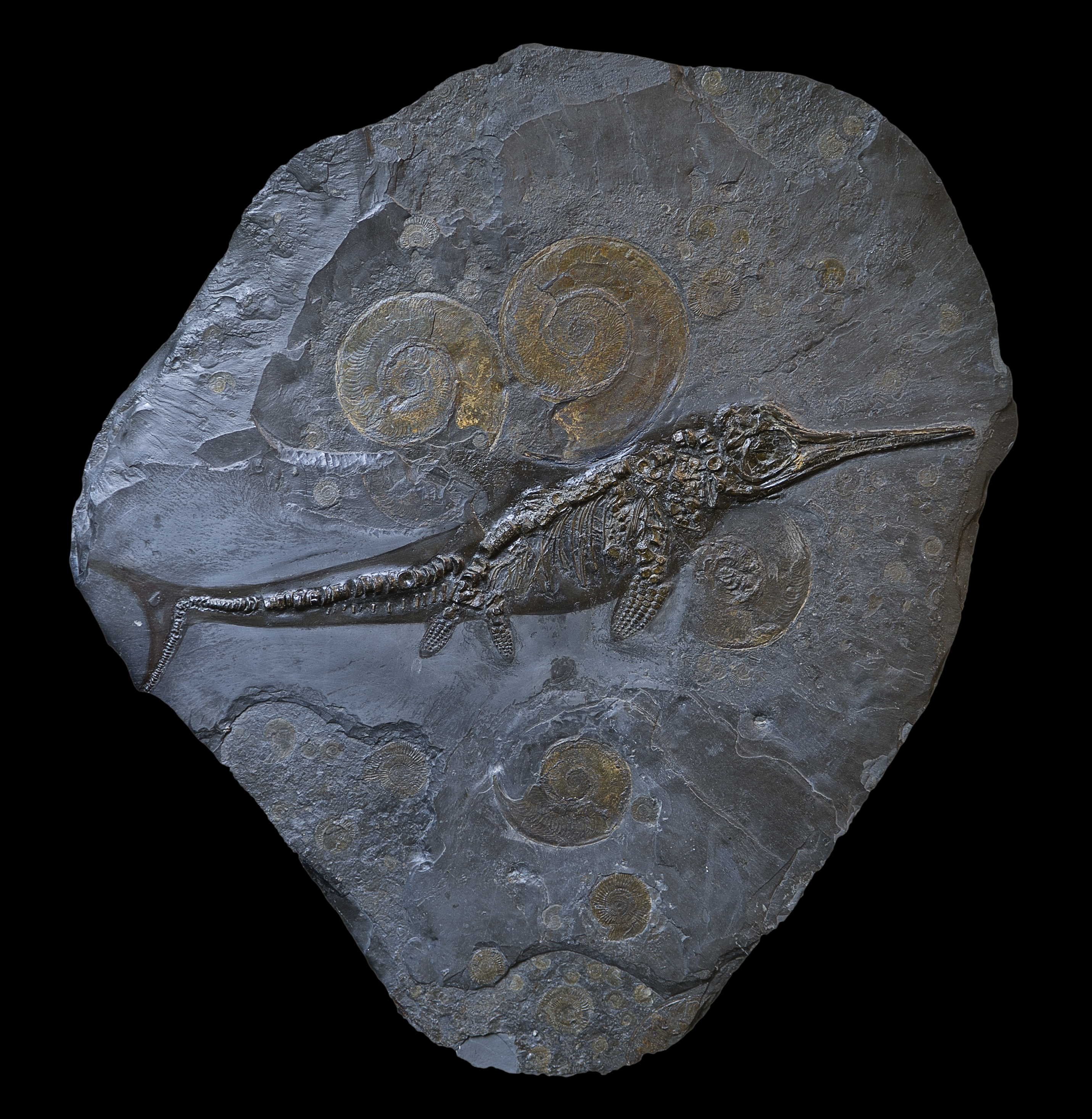 Marine reptile skeleton Temnodontosaurus acutirostris, with ammonites: Harpoceras falcifer Stage : Lower Jurassic (Toarcian) 185 million years Locality : Holzmaden Germany Size : 125x120cm